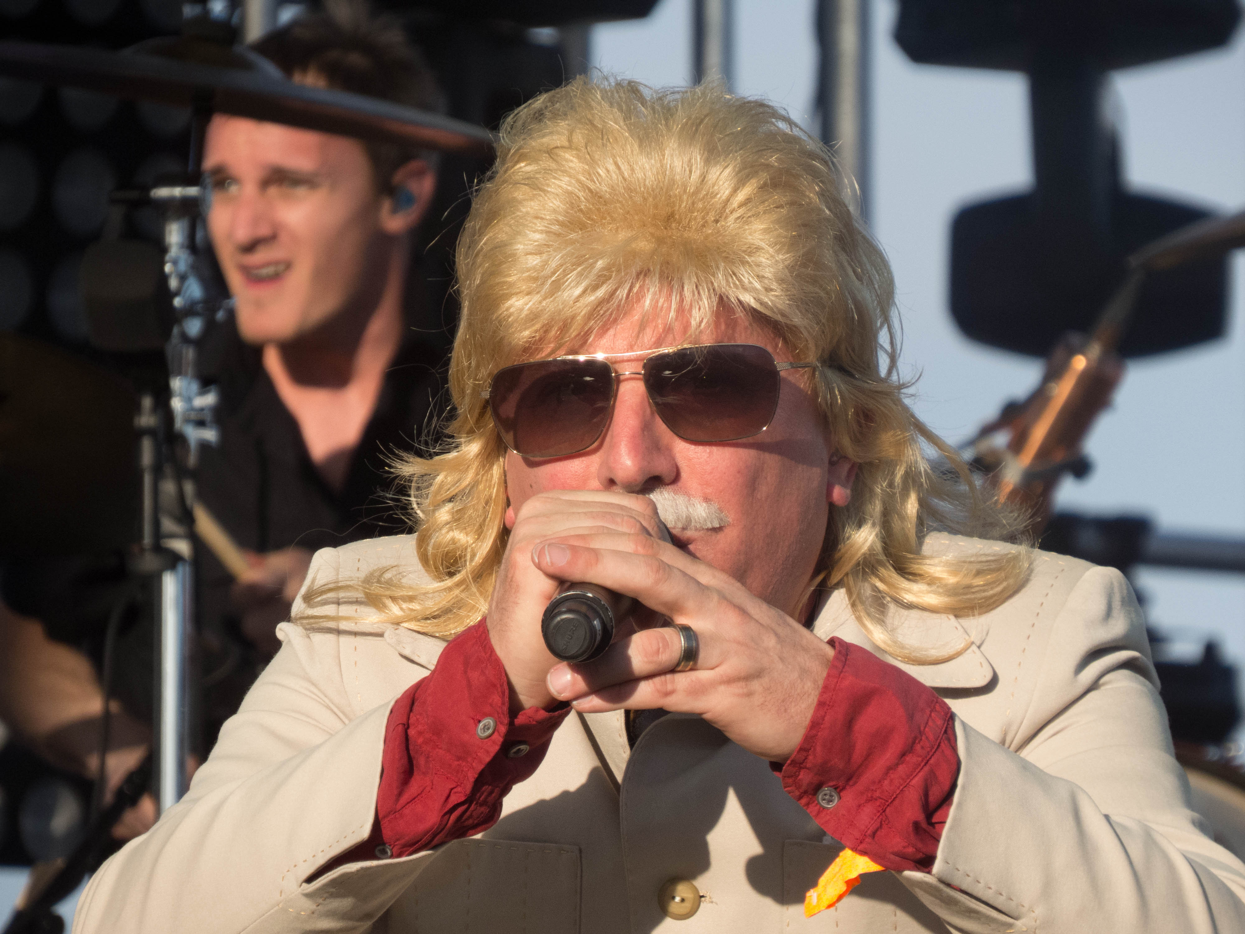 Maynard James Keenan performing with Puscifer at Coachella Valley Music and Arts Festival in 2013.